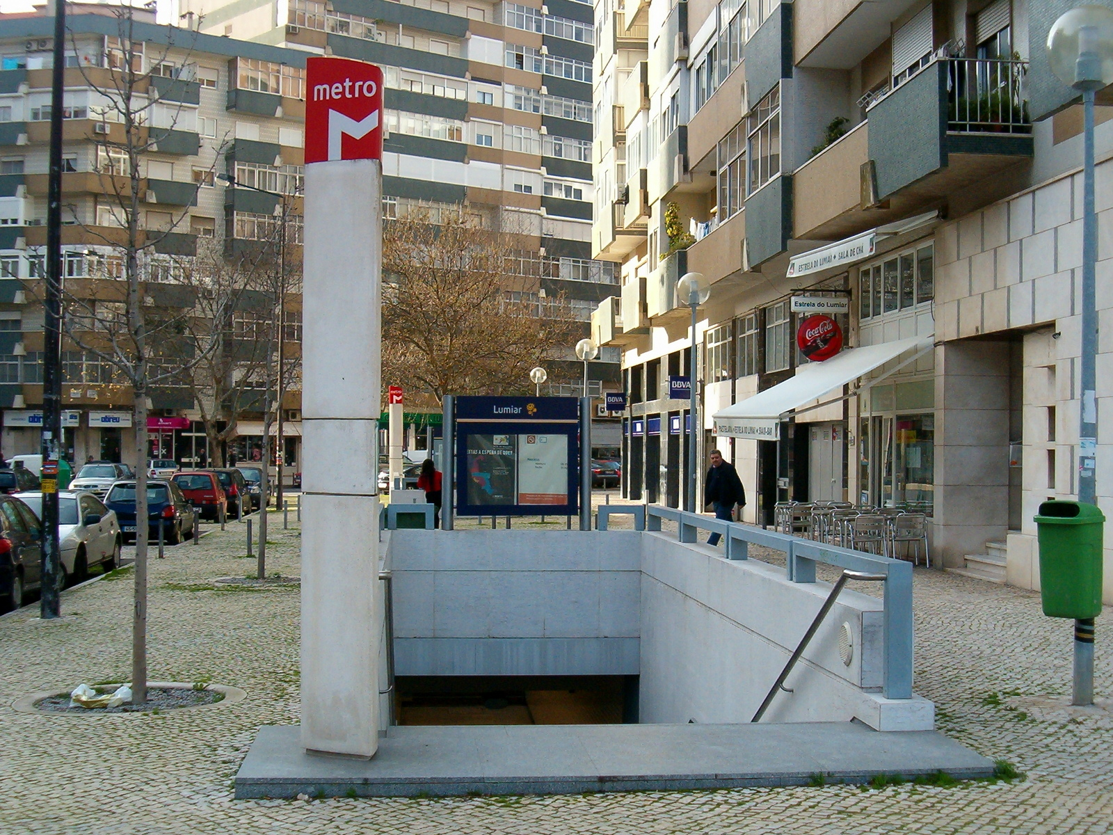 Metro station Lumiar (Lisboa)